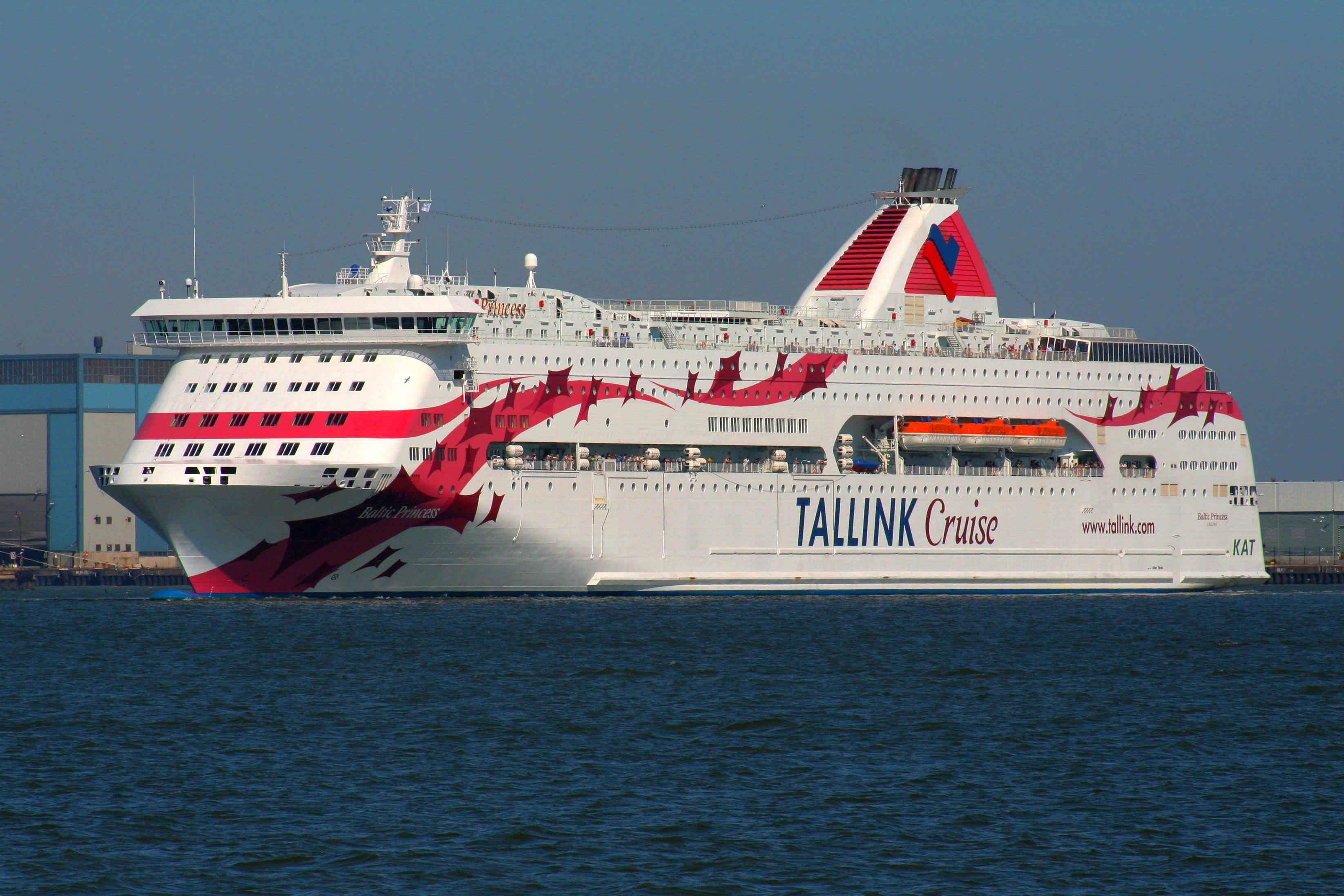 Tallink cruiseferry MS Baltic Princess reversing into quay at Helsinki West Harbour.